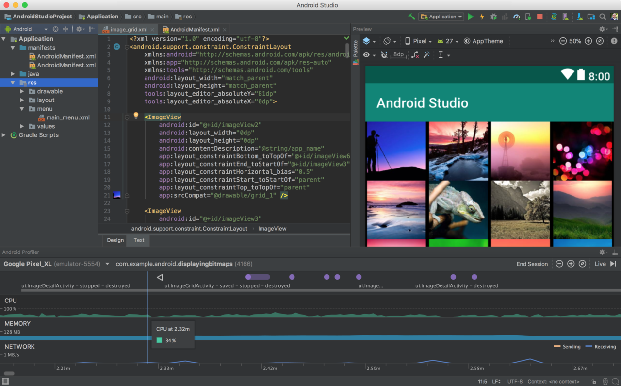 Screenshot of Android Studio 3.1 running on macOS. Android Studio, and images within screenshot are licensed under Apache.